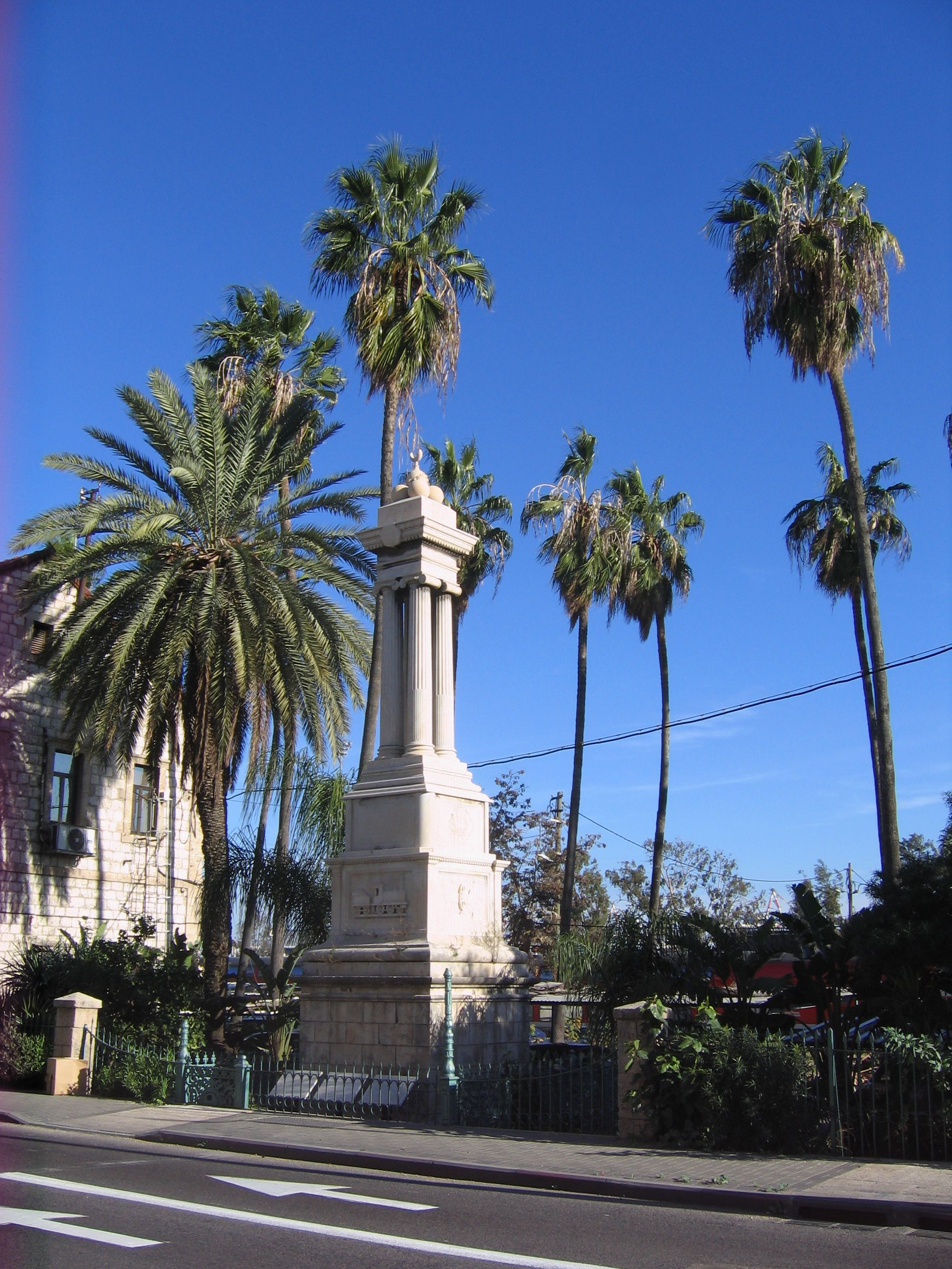 Hedshas-Rly.-Monument